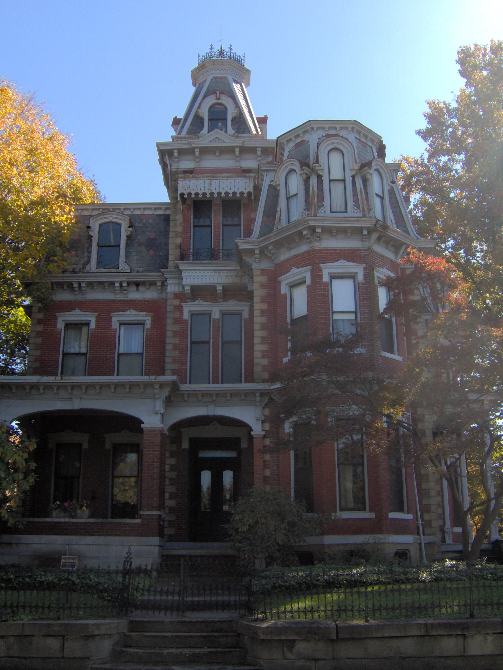 The Chancellor house in the Julia-Ann historic district, downtown, Parkersburg, WV.